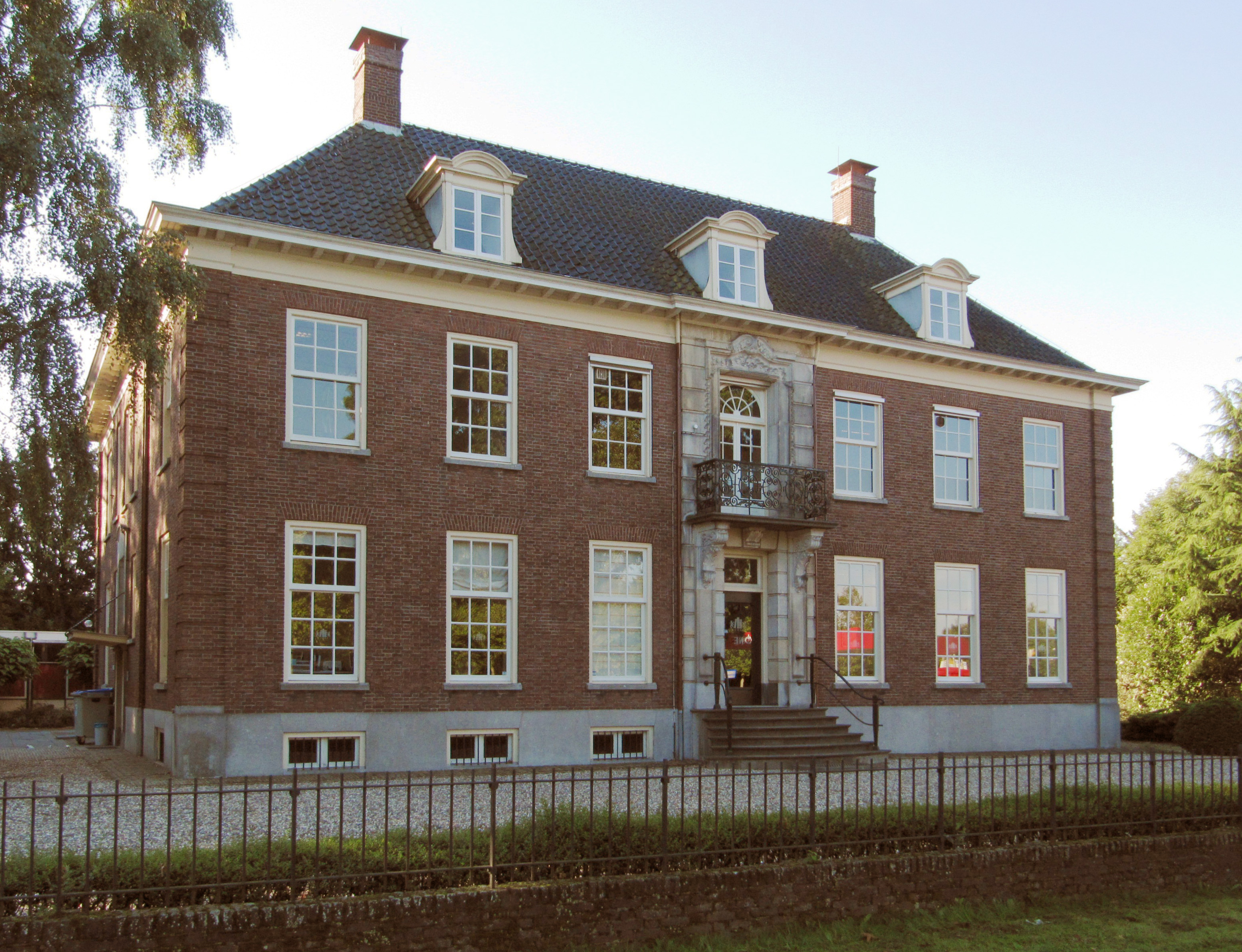 RM510635_-_Enschede_-_Boddenkampsingel_40Monumentenbordje 2014.svg